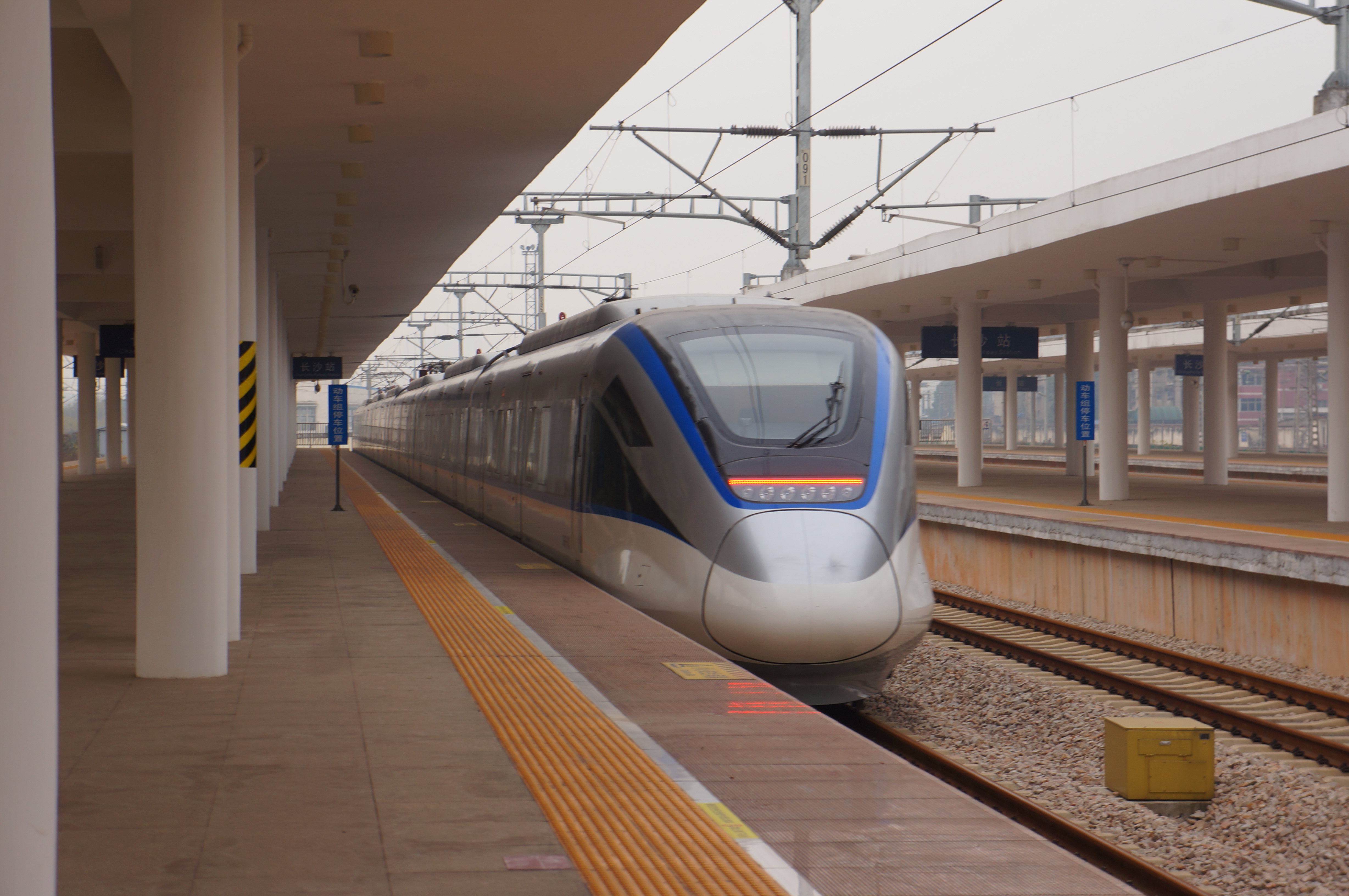 201712 CRH6F-0433 departs from Changsha Station